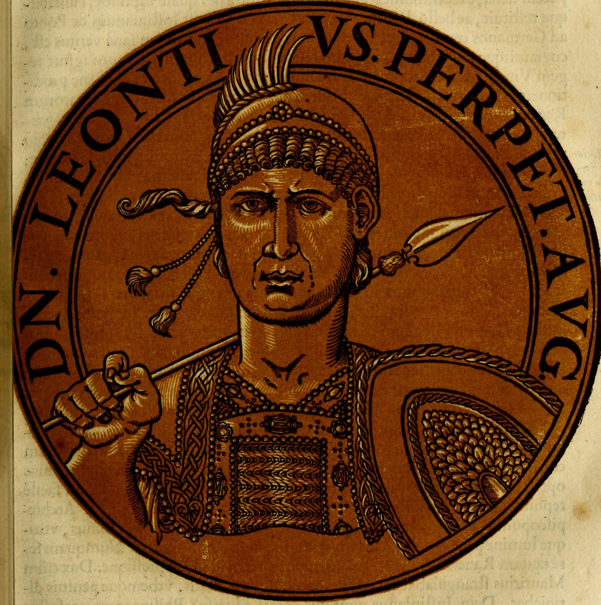 Title: Icones imperatorvm romanorvm, ex priscis numismatibus ad viuum delineatae, & breui narratione historicâ Year: 1645 (1640s) Authors: Goltzius, Hubert, 1526-1583 Gevaerts, Jean-Gaspard, 1593-1666 Rubens, Peter Paul, 1577-1640 Subjects: Emperors Emperors Numismatics, Roman Publisher: Antverpiae, Ex officina plantiniana Balthasaris Moreti Text Appearing Before Image: 201 CI II. ORIS ATQVE CORDIS PVLCHERRIMA H A R M O N I A. Text Appearing After Image: Orienti prsefuit tribus annis: truncatis naribus in carcerc tandem excarnificatus. • Cc